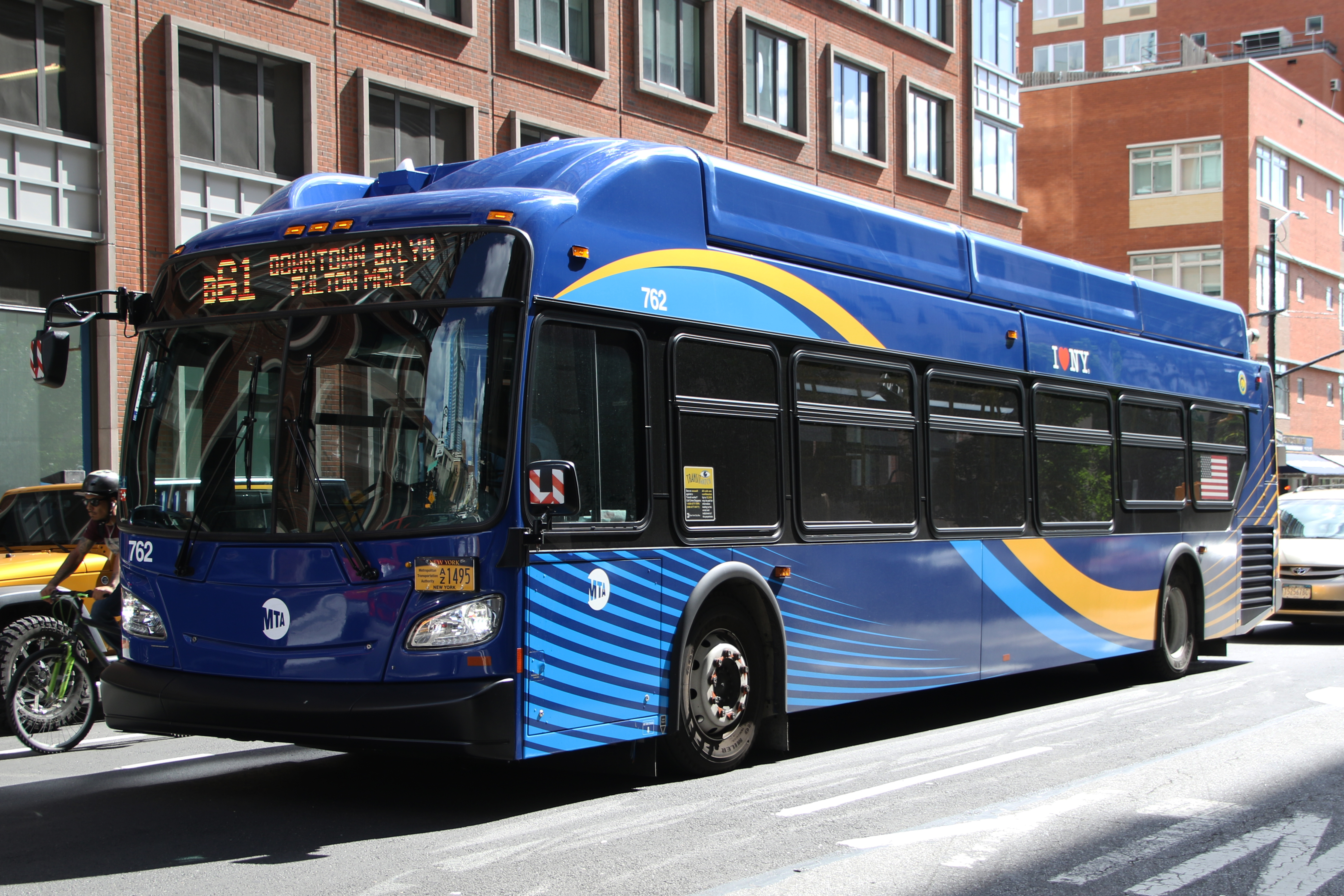 MTA NYC Bus New Flyer Industries XN40 762 B61 bus on Jay St.